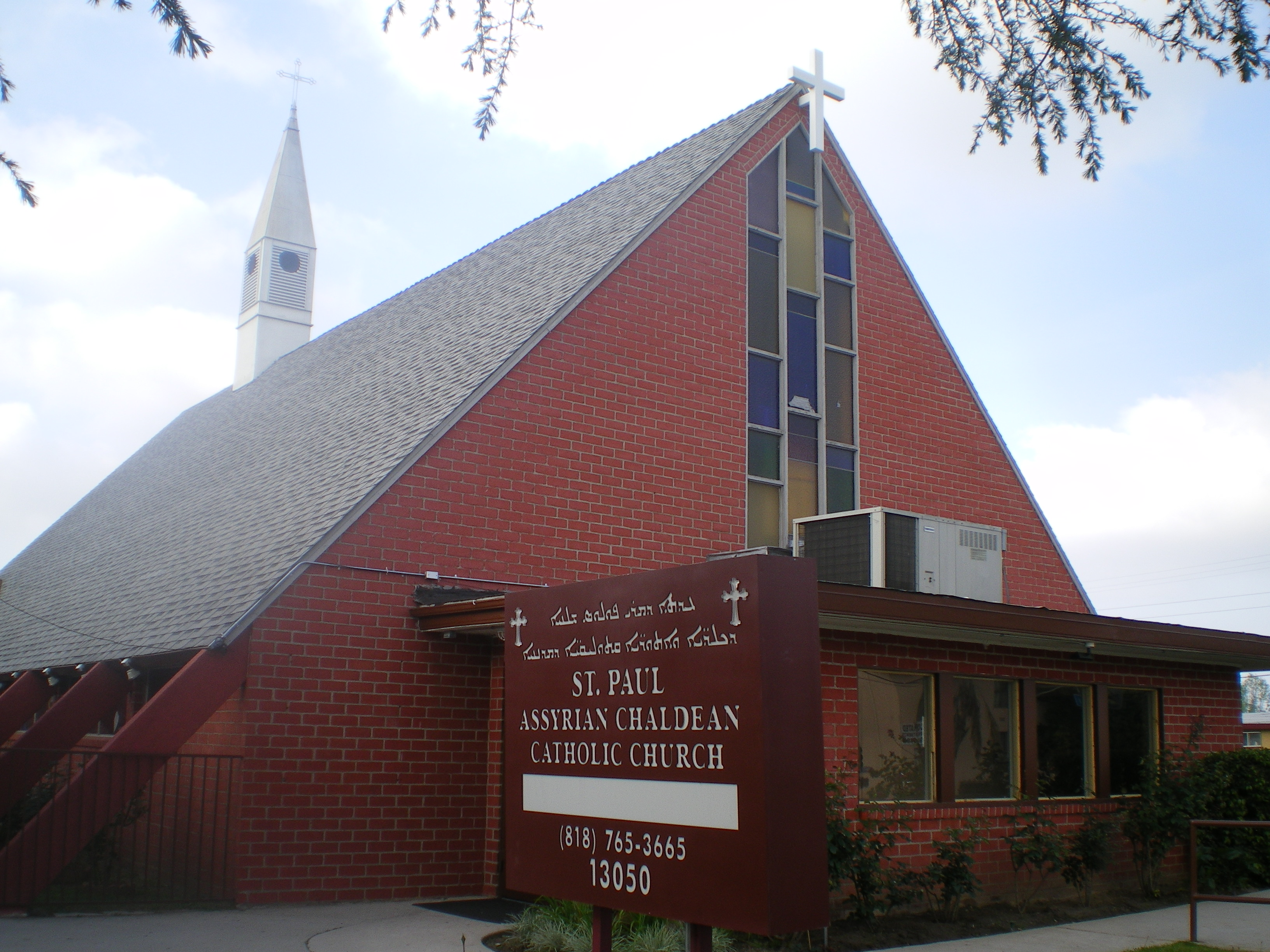 St. Paul Assyrian Chaldean Catholic Church, 13050 Vanowen, N. Hollywood, Los Angeles, California 13050 Vanowen, N. Hollywood, Los Angeles, California